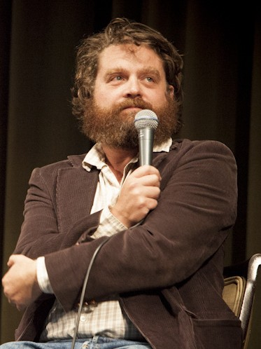 Marc Maron and Zach Galifianakis participating in a Doug Loves Movies podcast at the 2012 LA Pod Fest